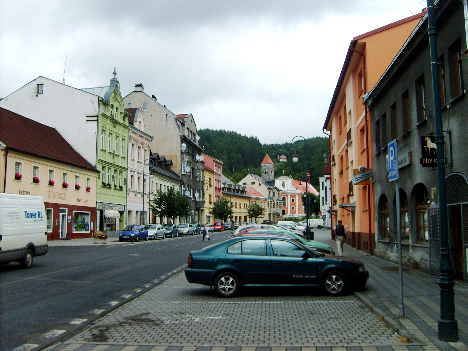 Square in Nejdek.